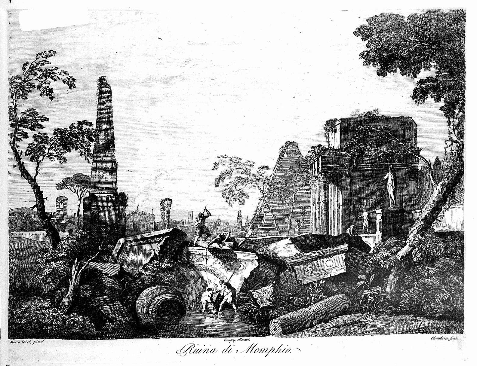 Iconographic Collections